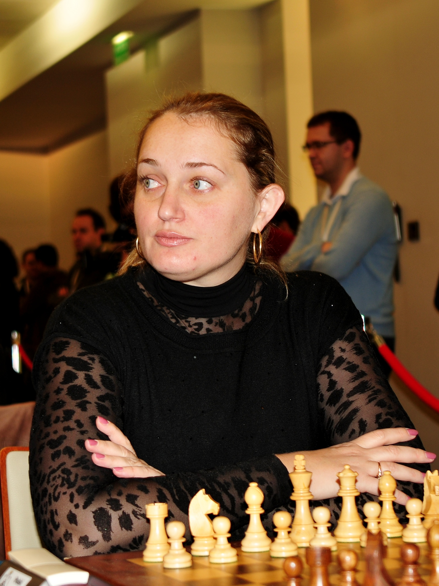 IM Inna Gaponenko, European Chess Team Championship Warsaw 2013